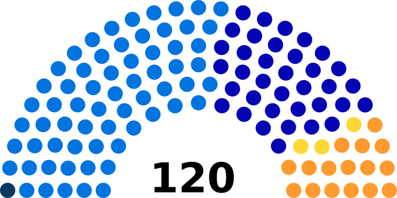 Seats diagramme of Swiss National Council (1860)